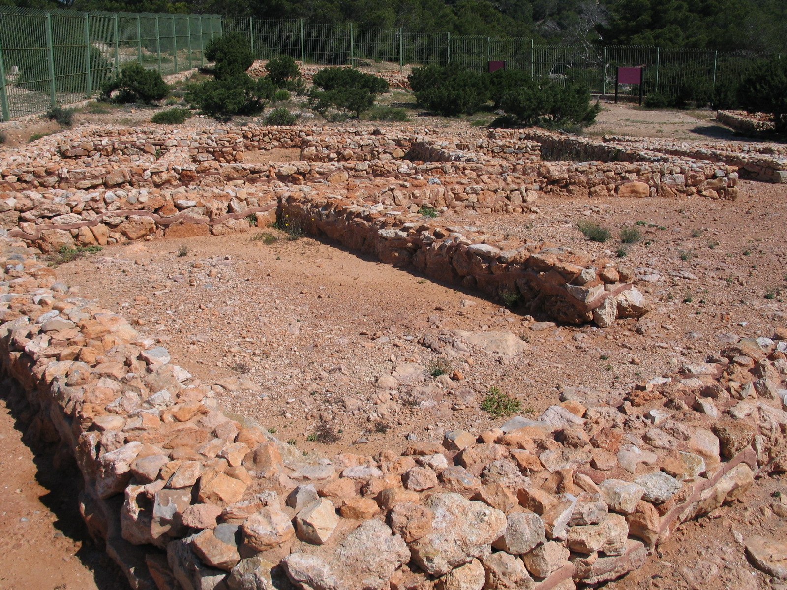 settlement of Phoenicians at Sa Caleta, Ibiza, Spain